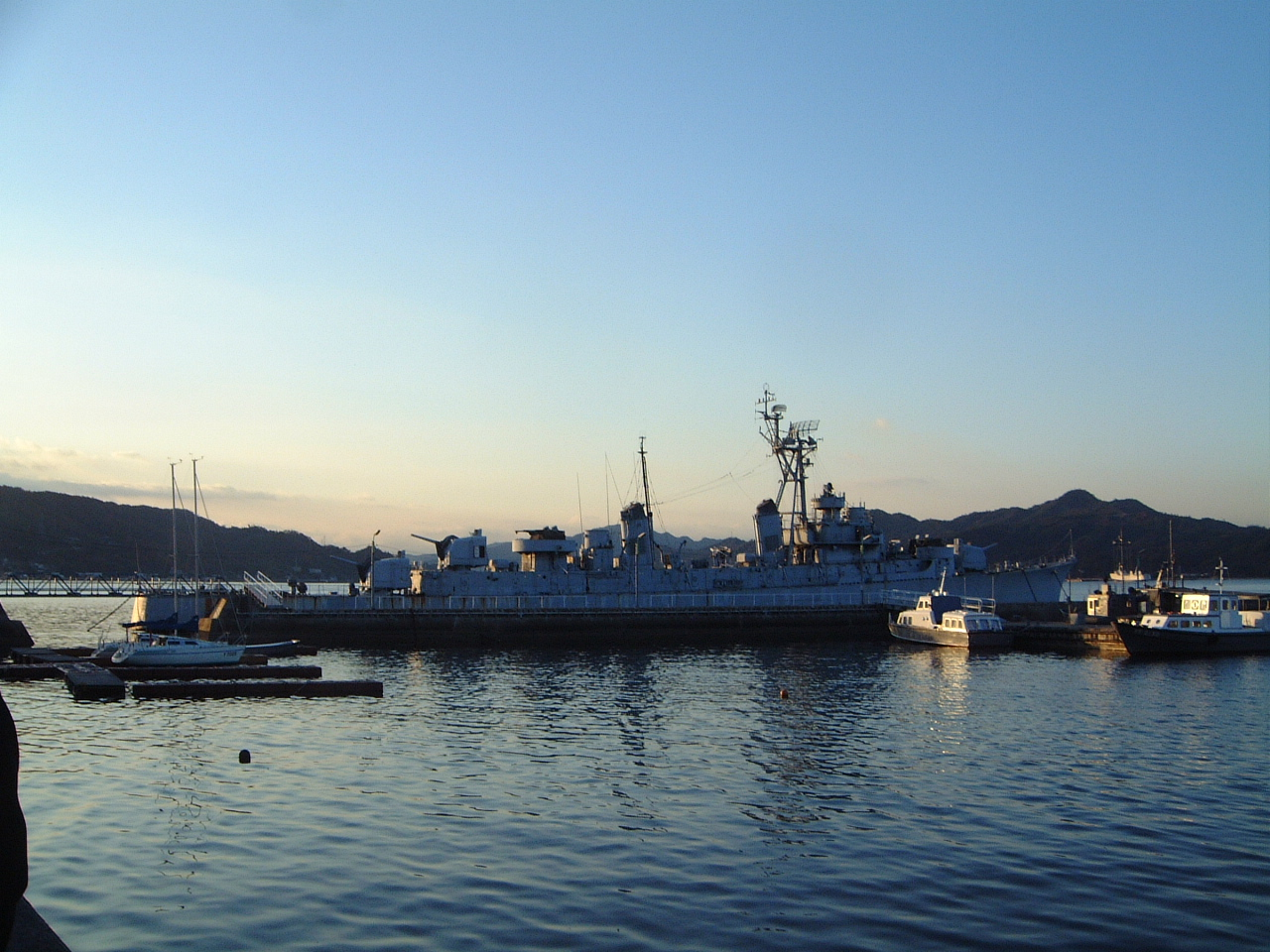 旧護衛艦はるかぜ 海上自衛隊第1術科学校にて保管されていた2000年12月7日撮影 撮影者:Fwng3431 Retired JDS Harukaze She was kept in Japan maritime self-defence force first maritime service school 7/DEC/2000